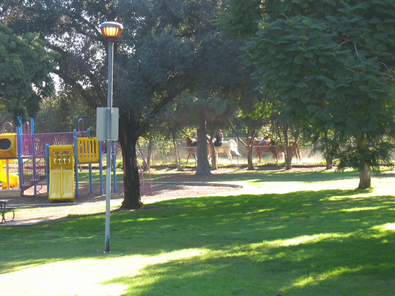 Grant Rea Park — Montebello Barnyard Zoo, in Montebello, Southern California. I took this picture